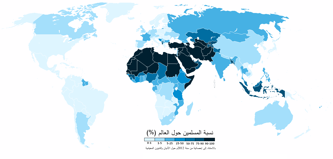 The Muslim population of the world map by percentage of each country, according to the Pew Forum 2009 report on world Muslim populations.